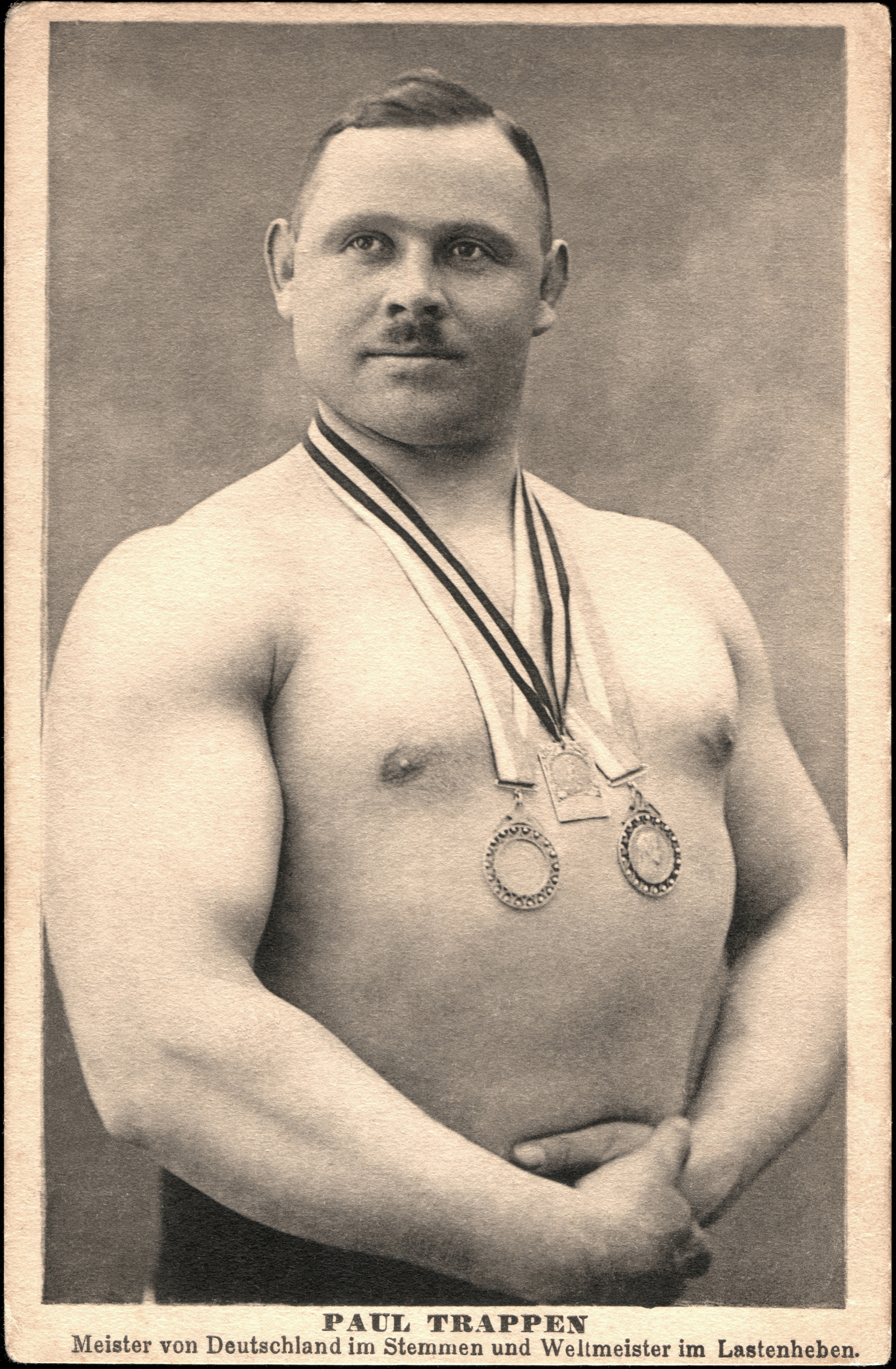 Portrait of Paul Trappen, the world's strongest man (c. 1915).